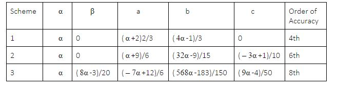 Compact Finite Difference Schemes for the first order derivatives